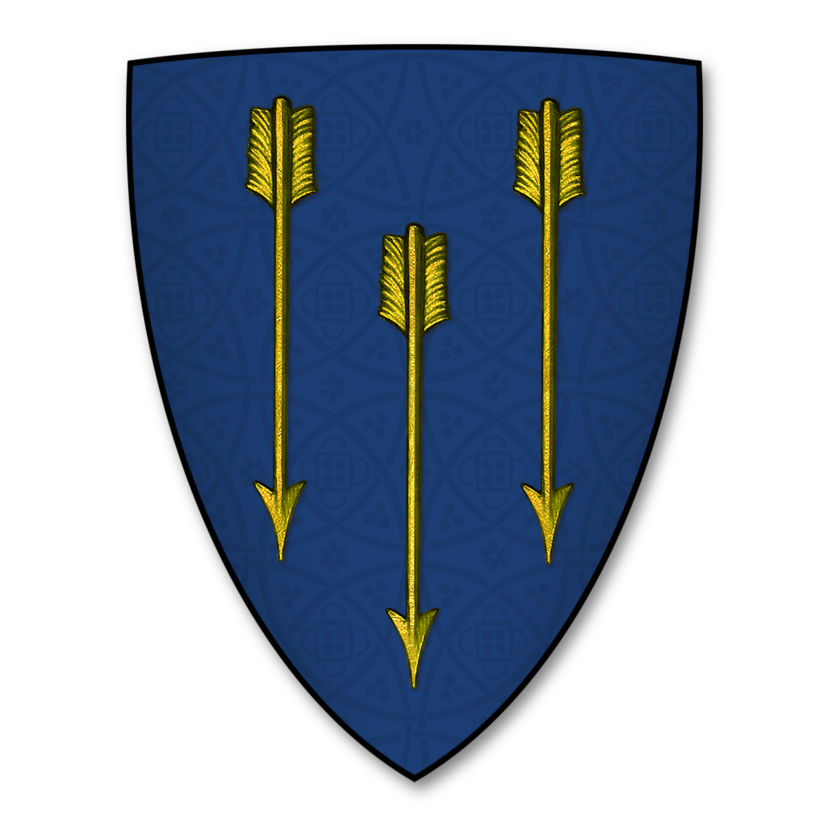 The armorial bearings of the ARCHER family of Umberslade Hall, Warwickshire, viz: Azure, three arrows, points downward, or